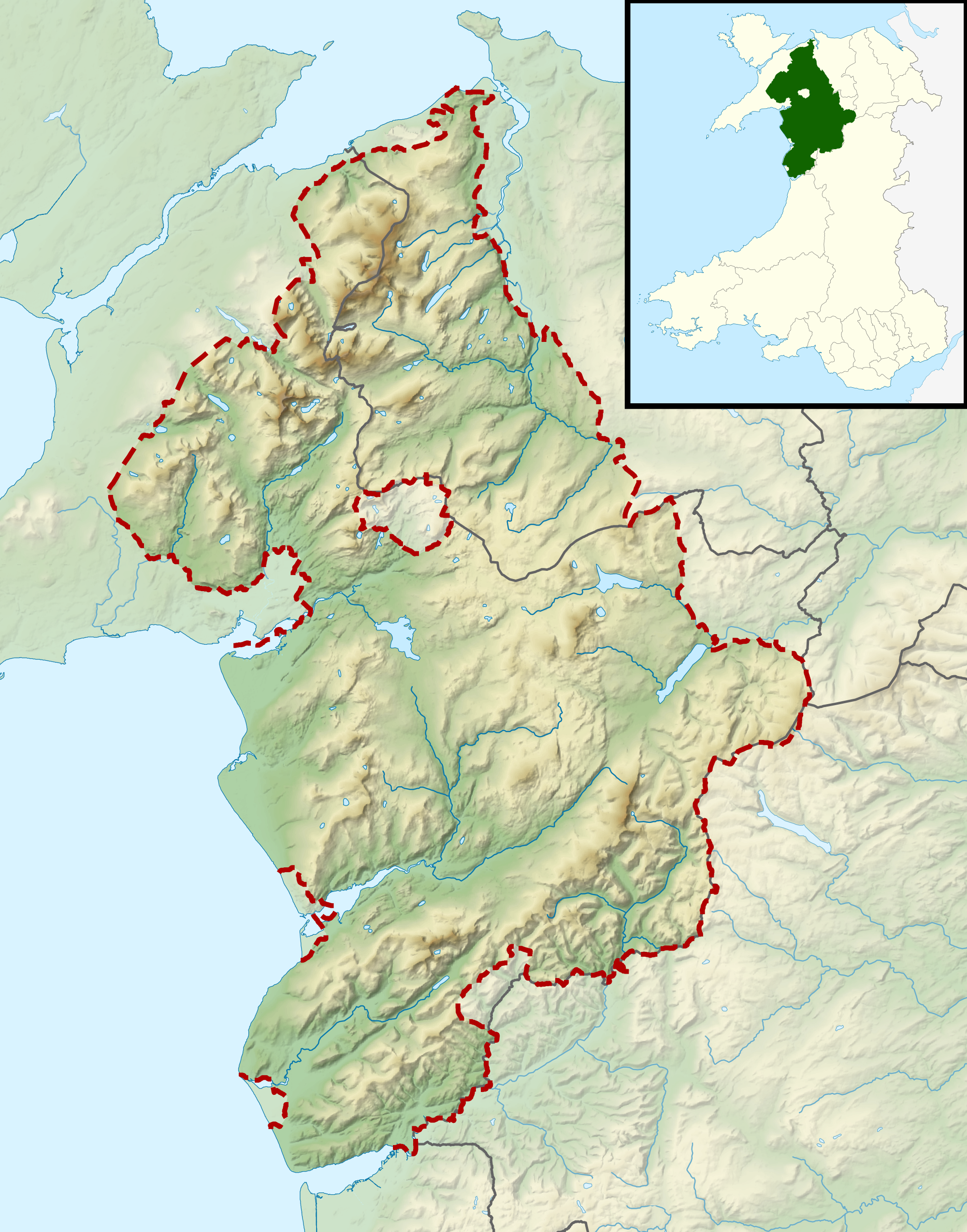 Relief map of Snowdonia National Park, UK Equirectangular map projection on WGS 84 datum, with N/S stretched 170% Geographic limits: West: 4.40W East: 3.30W North: 53.35N South: 52.50N